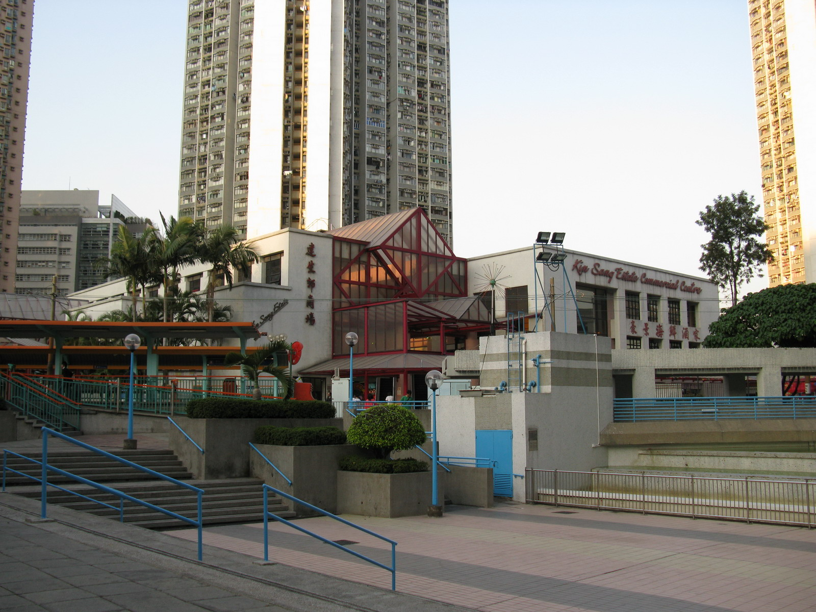 Kin Sang Estate Commercial Centre 中文（香港）: 建生邨商場